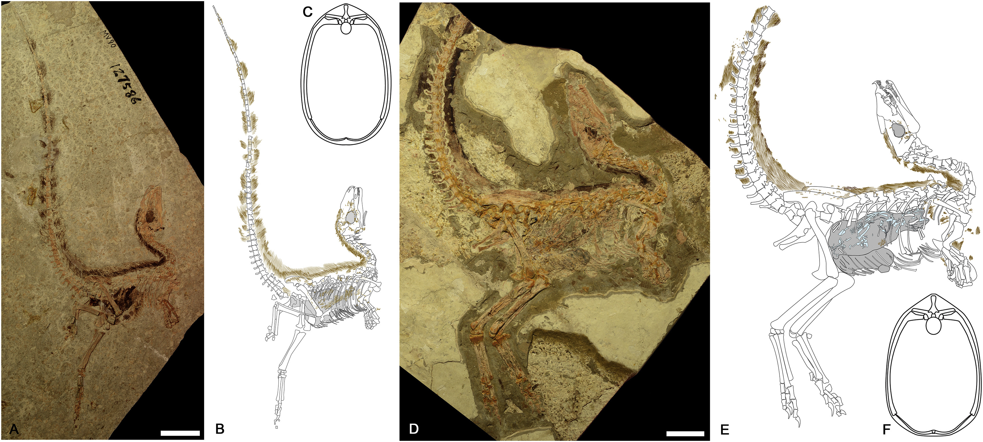 Figure 1 Sinosauropteryx prima Fossils and Interpretive Drawings The plumage distribution is mapped out across each specimen, with feathers shown in brown, internal soft tissues and pigment from the eyes shaded gray, and vertebrate stomach contents in light blue. See also Figures S1 and S2. (A) NIGP 127586 counterpart to the holotype. (B) Interpretive drawing of NIGP 127586. (C) Reconstructed transverse section through the abdomen of NIGP 127586. (D) NIGP 127587. (E) Interpretive drawing of NIGP 127587. (F) Reconstructed cross-section through the abdomen of NIGP 127587. Scale bars represent 50 mm. Abdominal transverse sections not to scale.